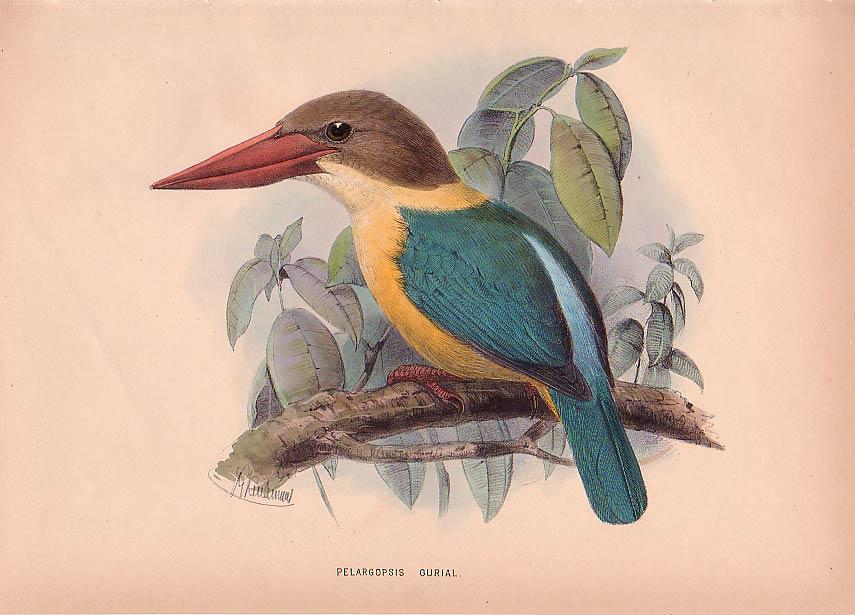 Pelargopsis capensis gurial by John Gerrard Keulemans